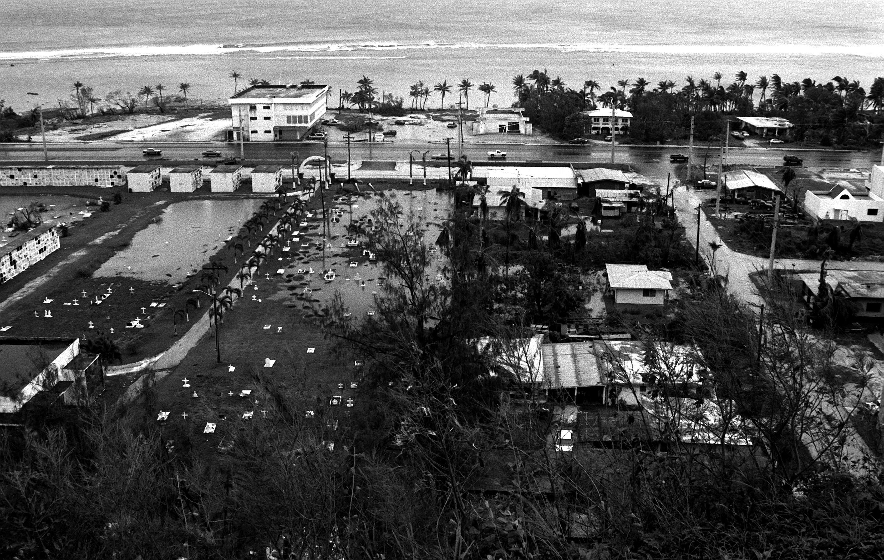 Damage in Anigua, Guam, following the landfall on Typhoon Omar.